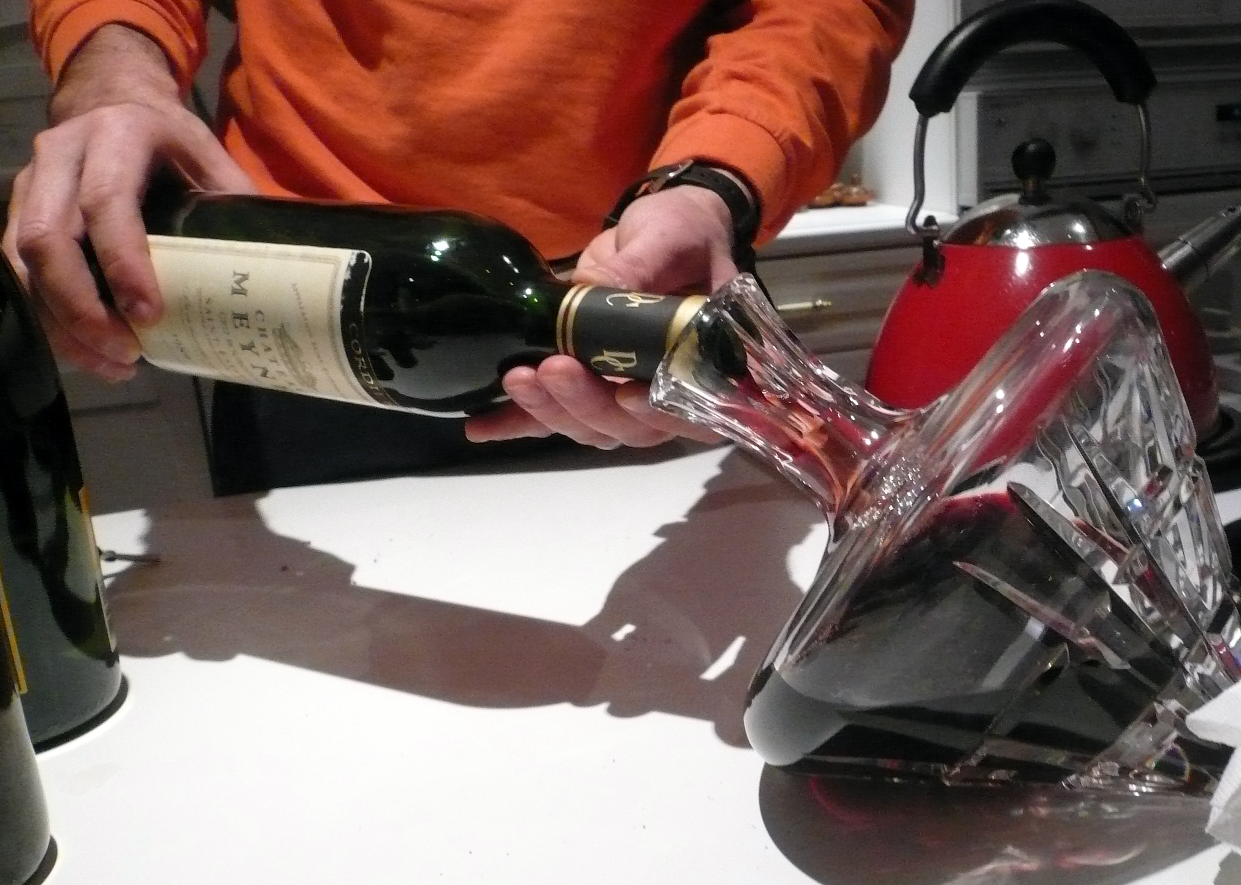 The process of pouring wine into a decanter for aeration